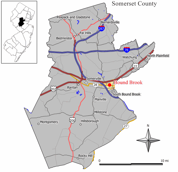 Original work by Jim Irwin, December, 2005. Map of Bound Brook in Somerset County, New Jersey.